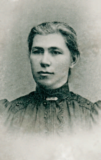 Maria Hrinchenko (who signed her works with a pseudonym Zagirnya ). Borys Hrinchenko’s wife.